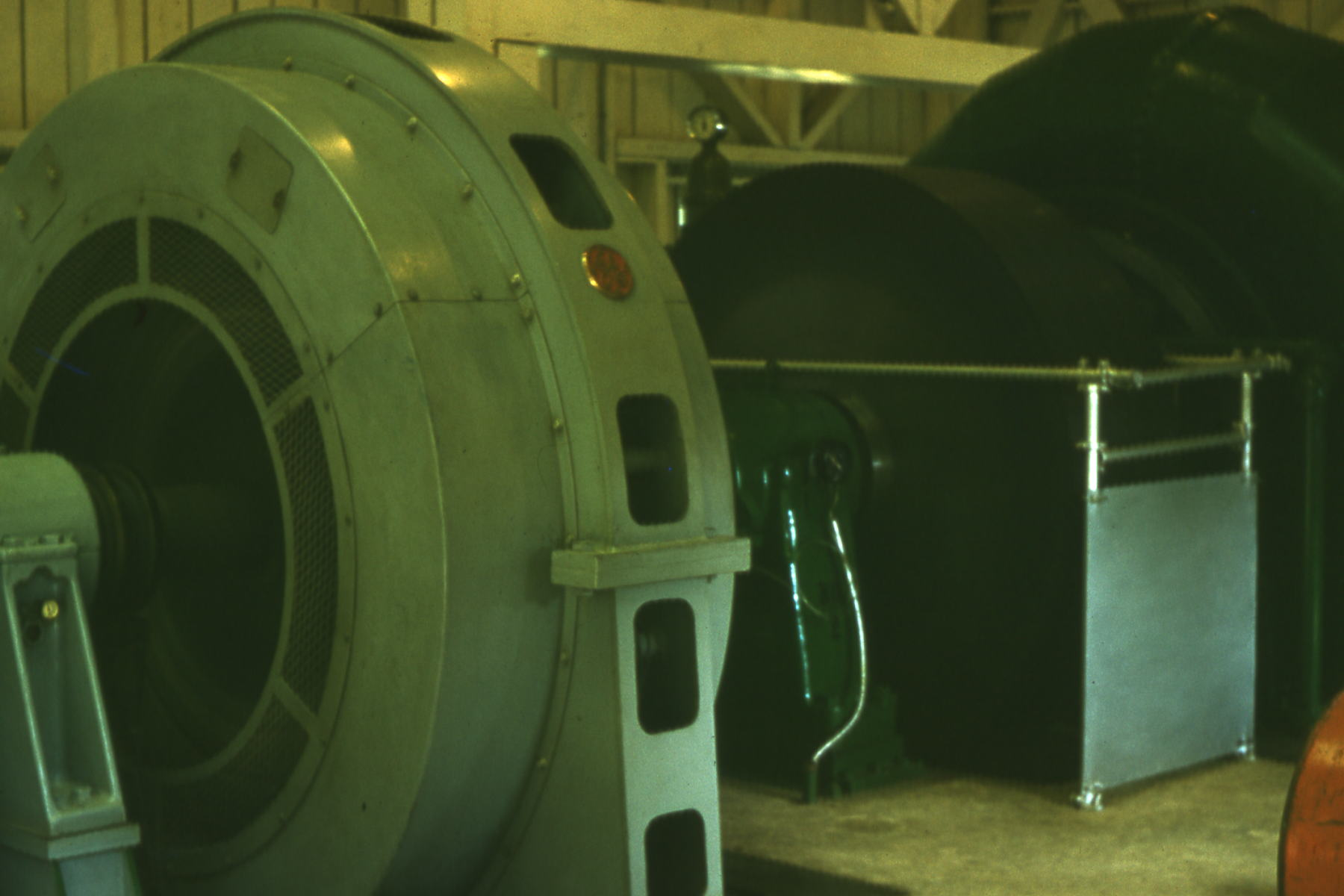 Another view of one of the Generators of Ei River Hydro Electric Plant in Nicaragua ca 1959.